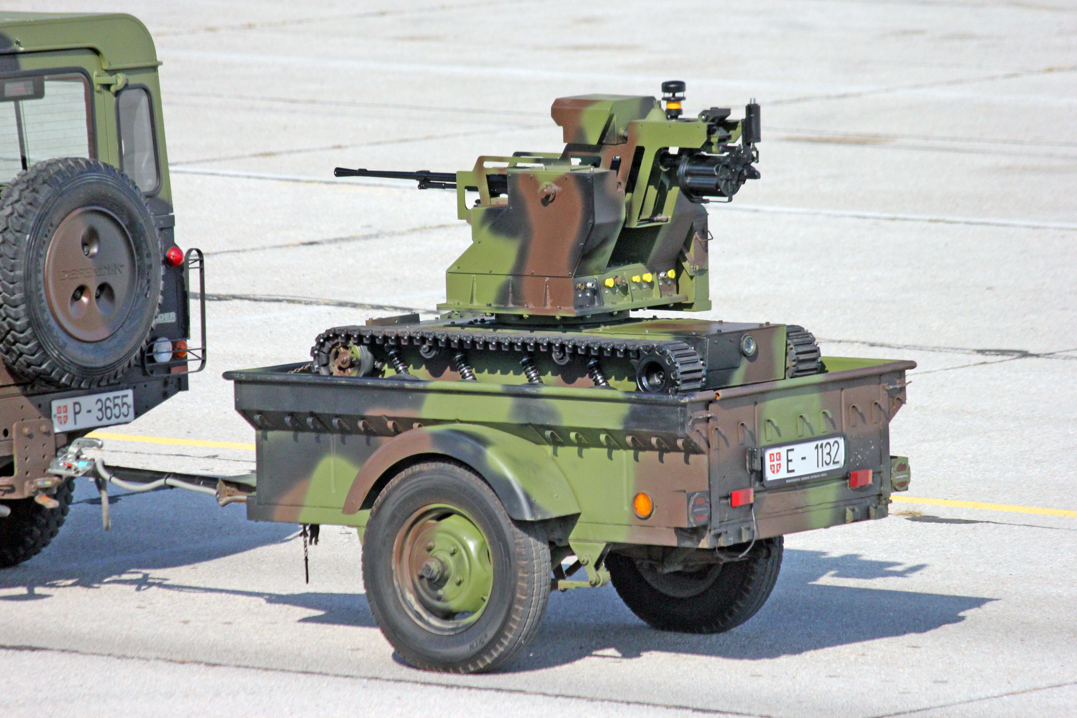 Serbian Land Rover Defender towing trailer with "Miloš" tracked combat robot on Sloboda 2019 military parade and exercise at "Colonel-pilot Milenko Pavlović" military airport.